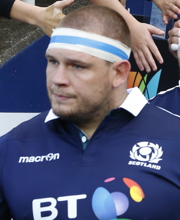 2017.06.17.14.59.18-Scots running on-0002 The 2017 mid-year rugby union international, 17 June 2017, Australia vs Scotland at Allianz Stadium, Sydney